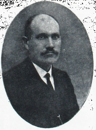 Bulgarian politican Marko Turlakov (1872-1940)